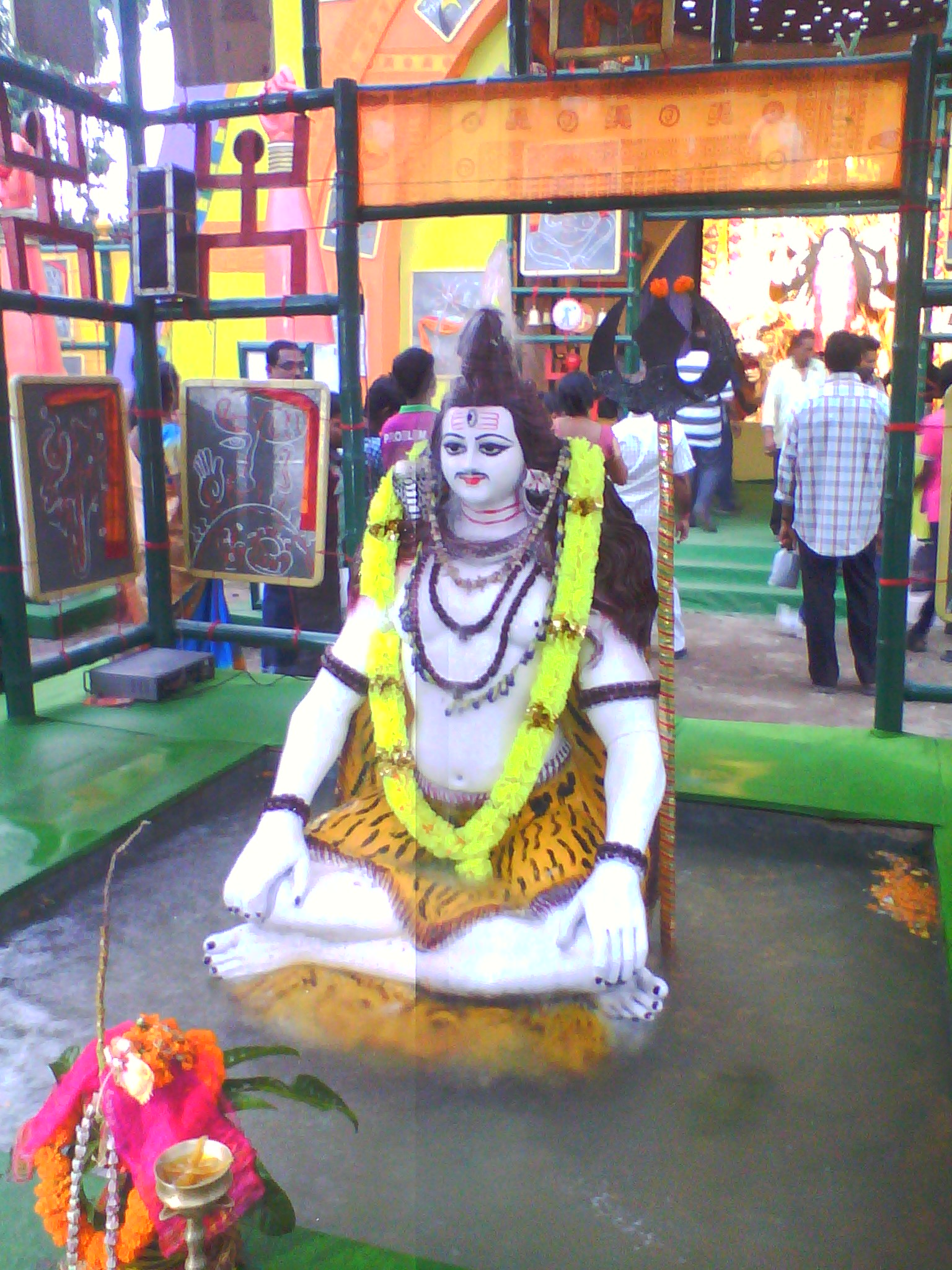 An Indian God named Shiva